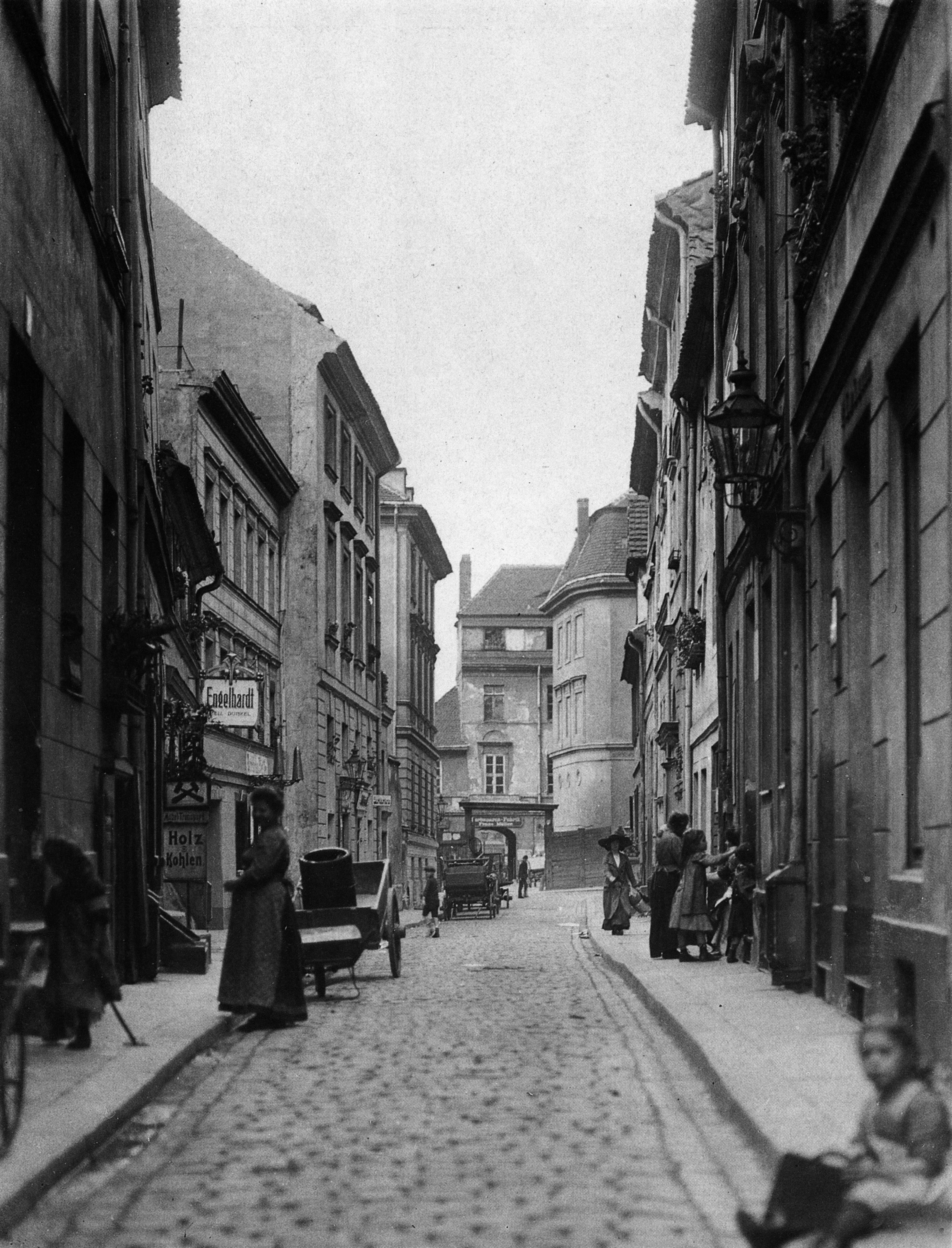 Köllnische Straße looking towards Fischerbrücke on Fisher Island in Berlin's Cölln district (now in Mitte).